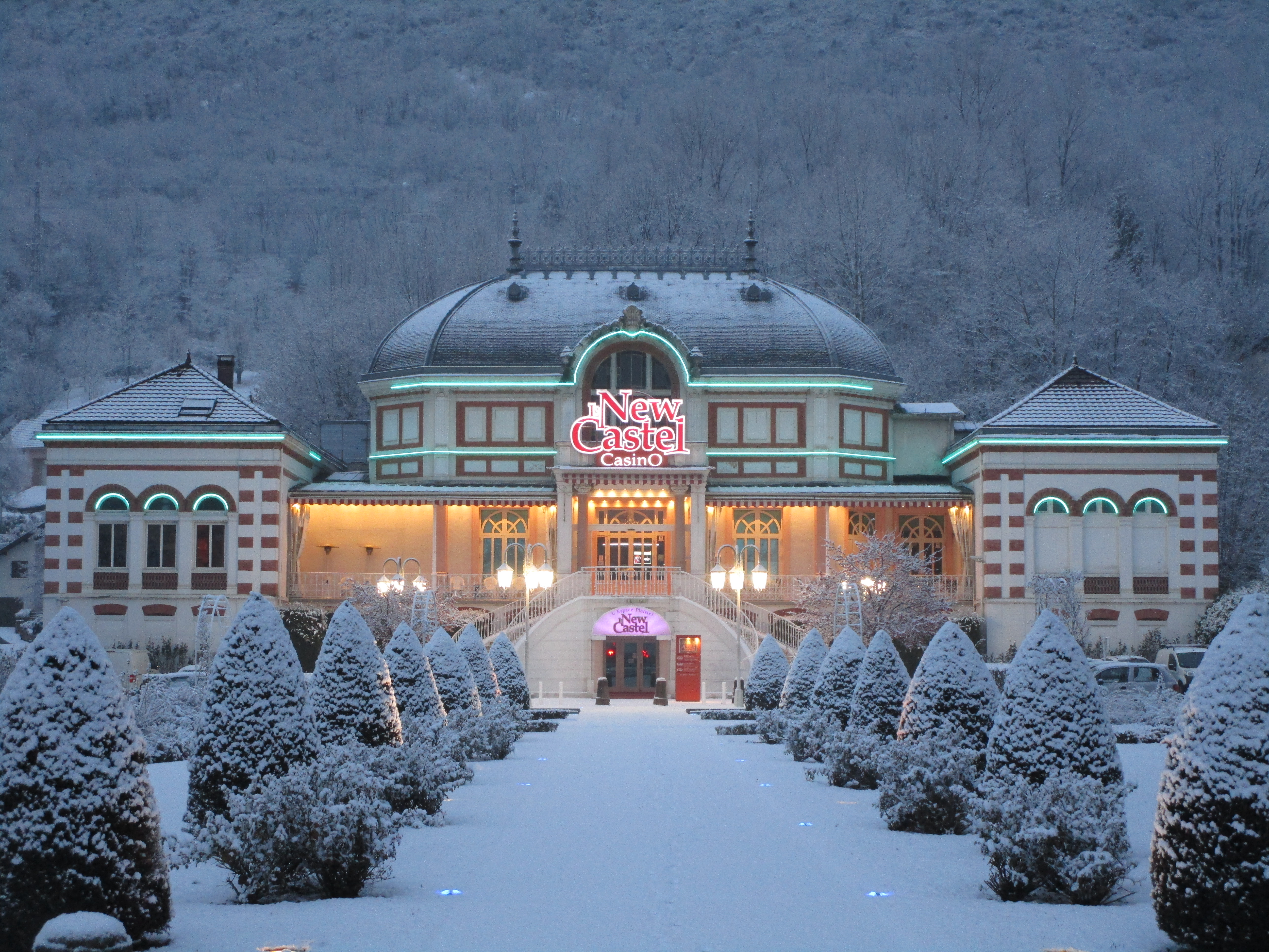 The casino of Challes-les-Eaux, under snow, on January 10, 2017.